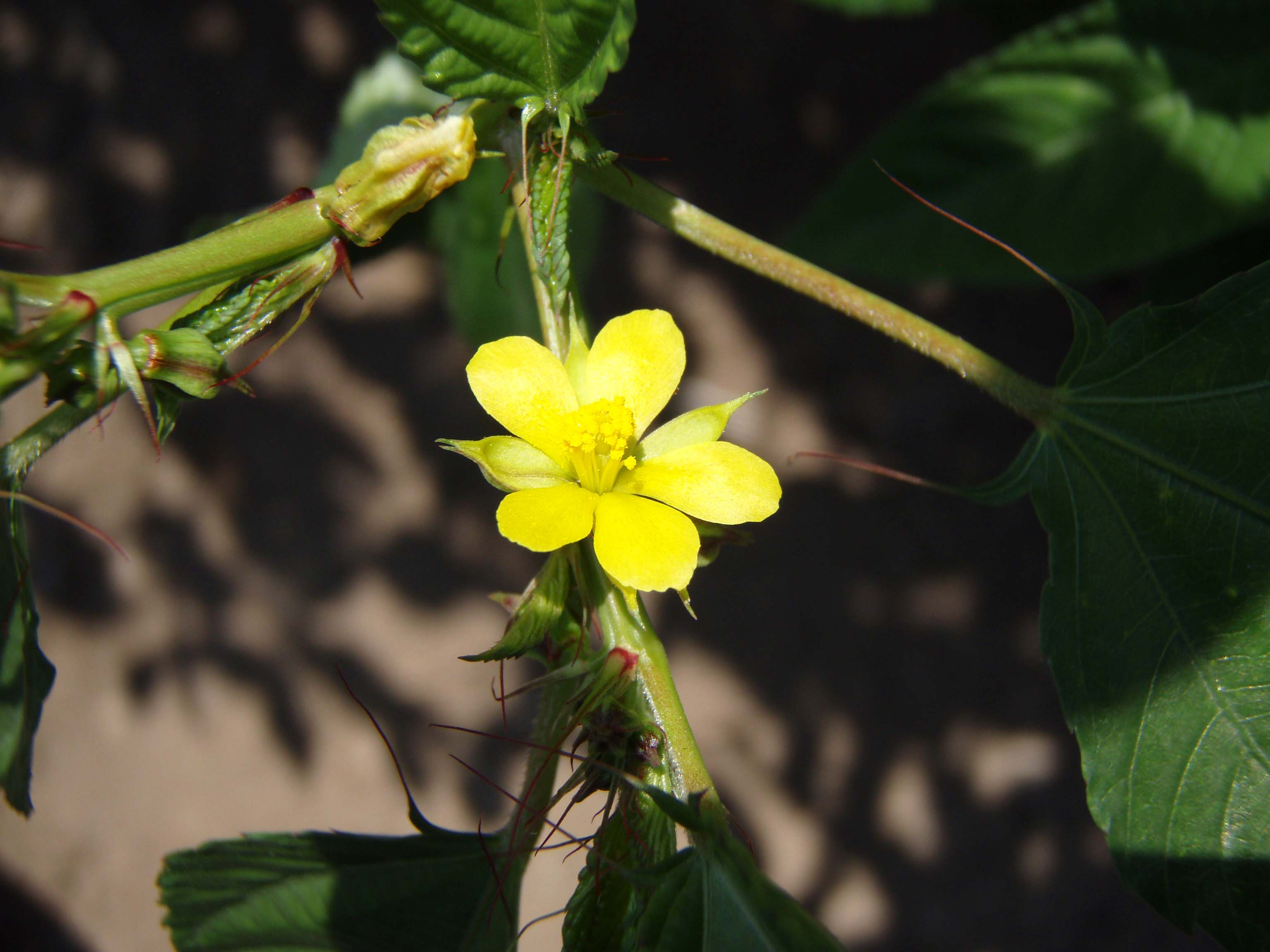 Corchorus